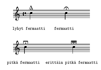 A few fermata forms.